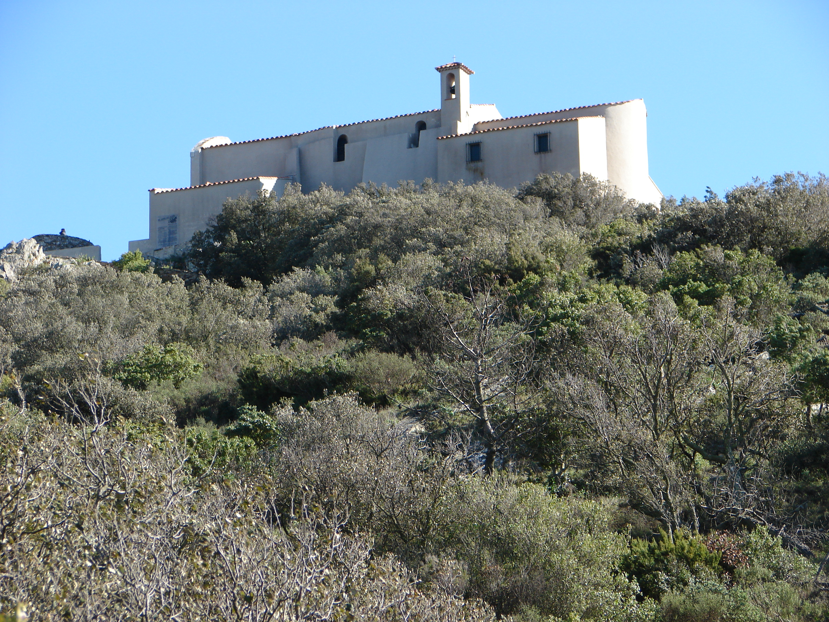 Wiew of the little Church "Notre Dame de Bonne garde".